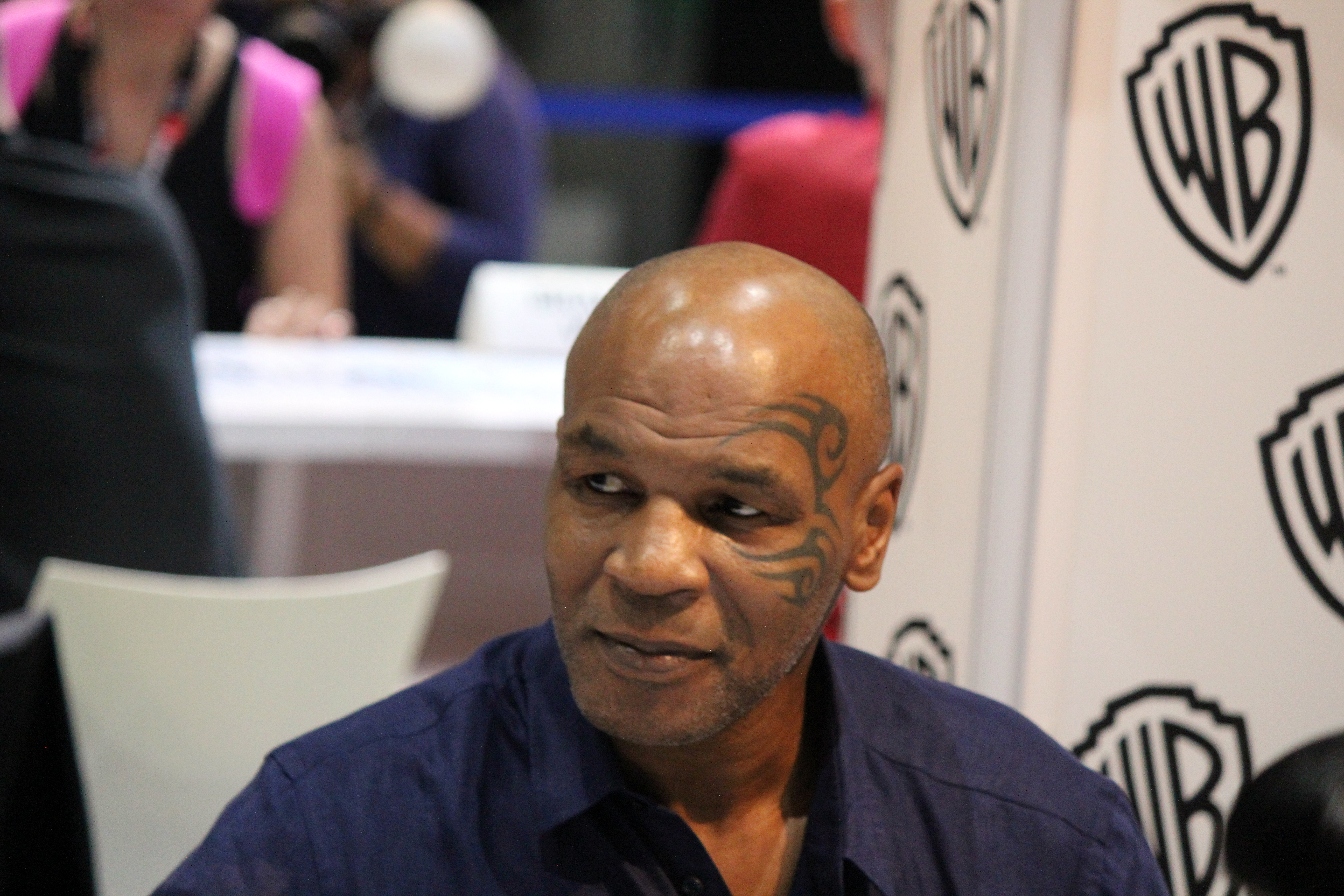 Mike Tyson signing autographs while promoting Mike Tyson Mysteries during the 2017 Comic-Con International at the San Diego Convention Center.